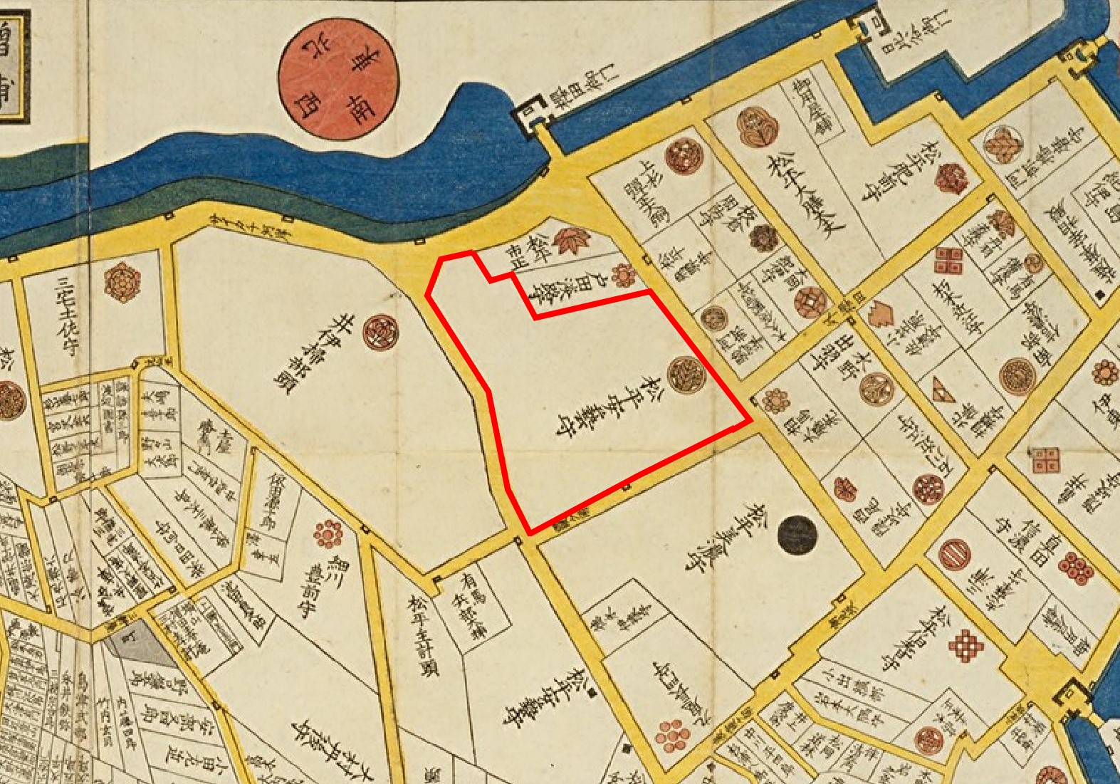 REsidence of Asano clan at Edo